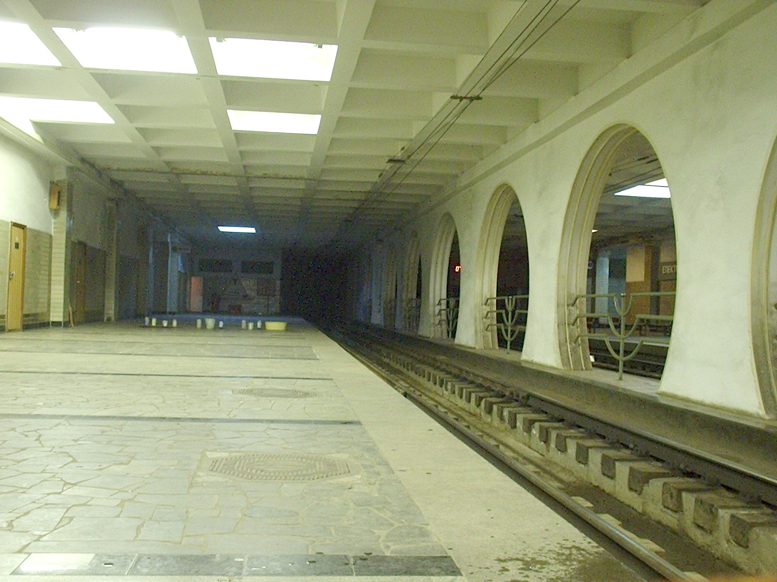 Platforms of Elektrozavodska metro station, Kryvyi Rih Metrotram, view towards Zarichna